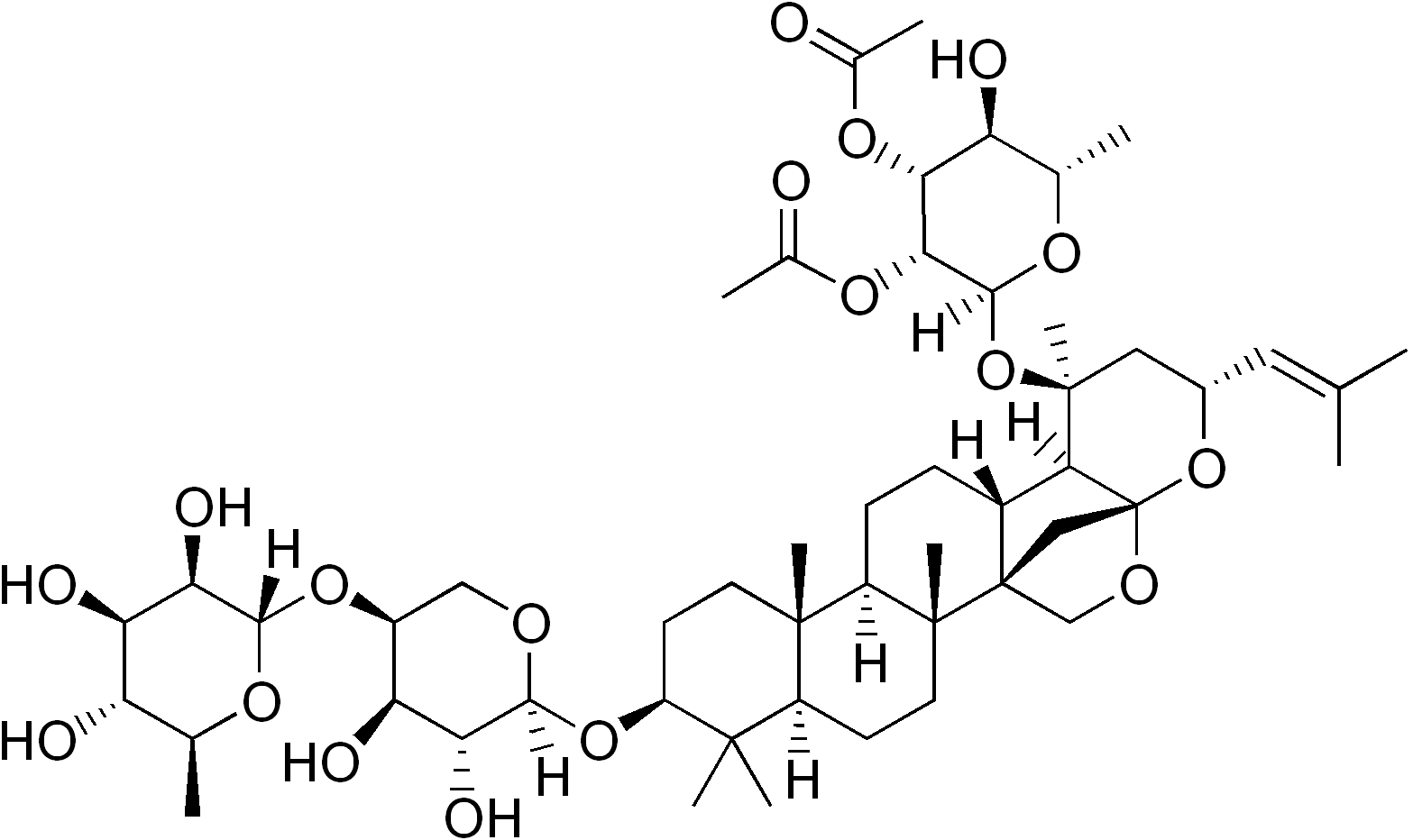 chemical structure of ziziphin